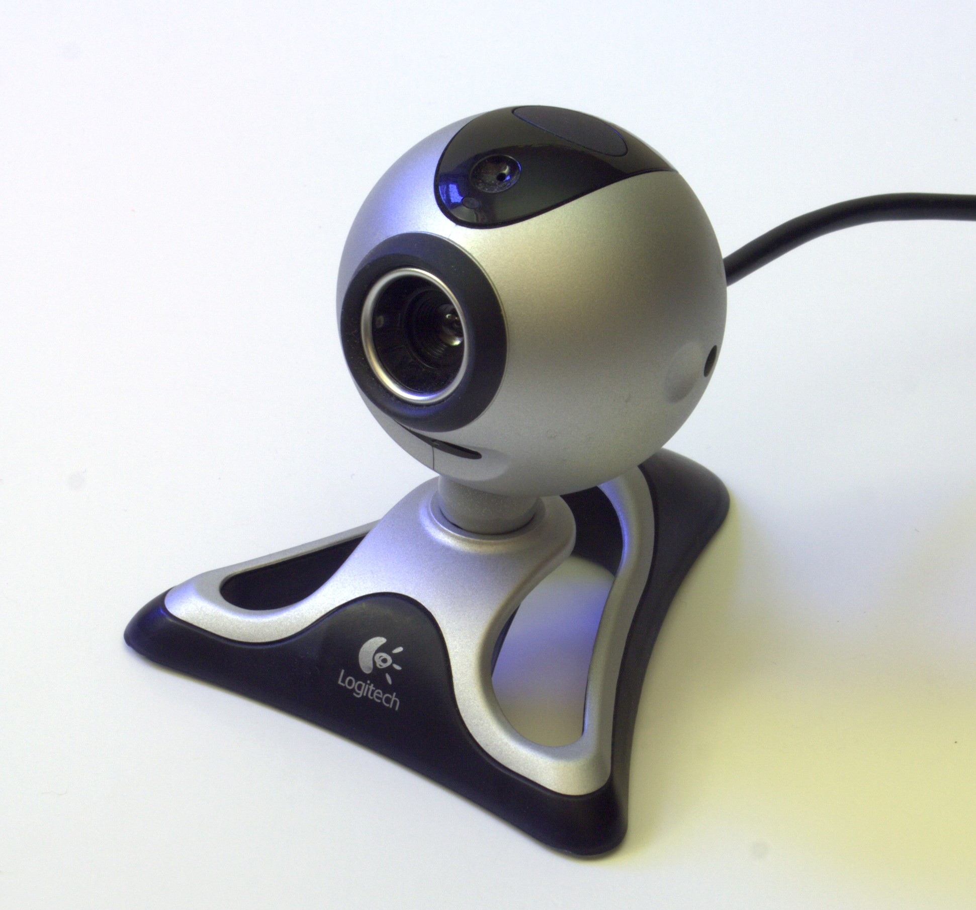 Logitech Quickcam Pro 4000 webcam (without "privacy cover")